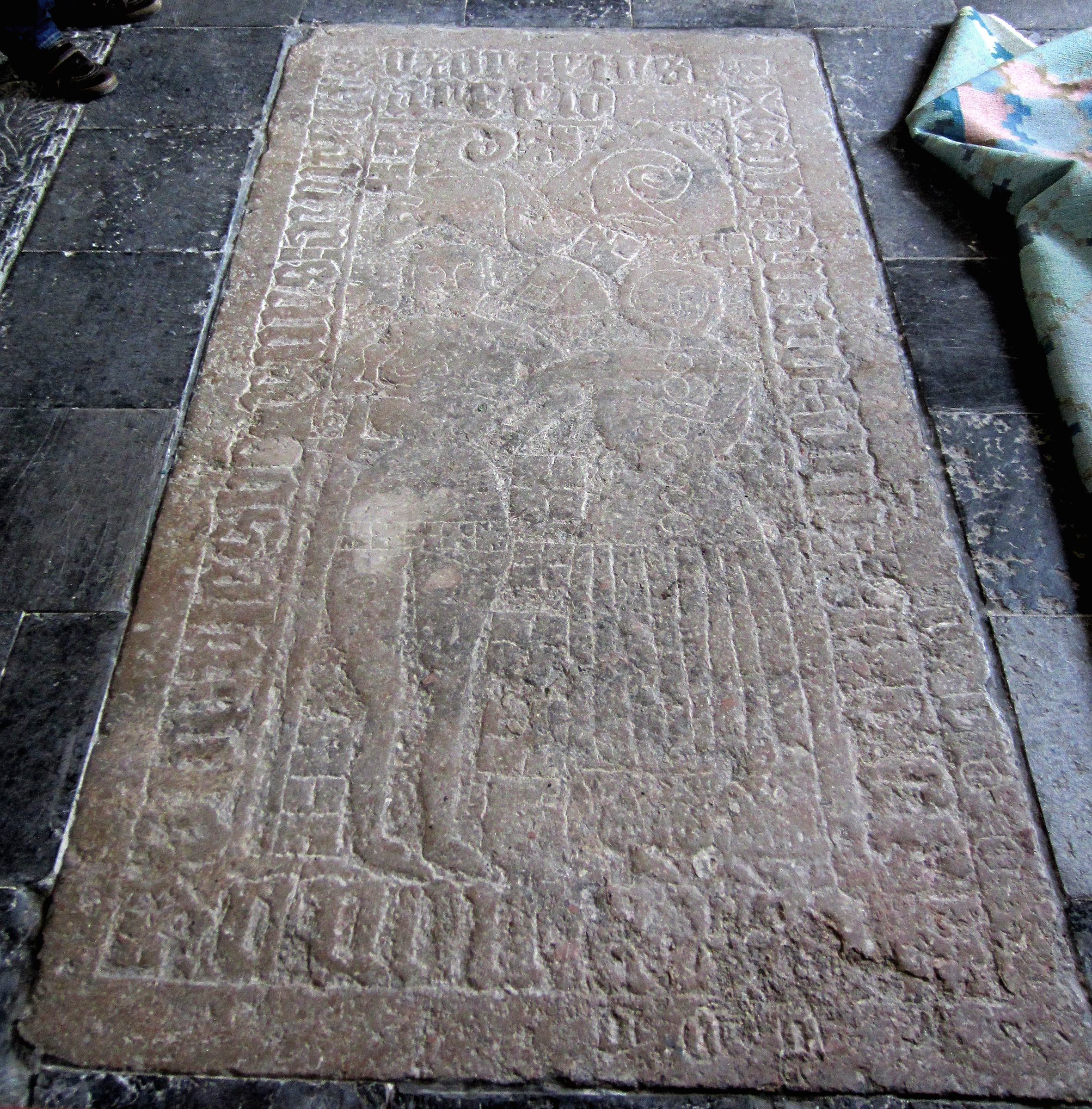 Grave stone in Äspö church, Sweden